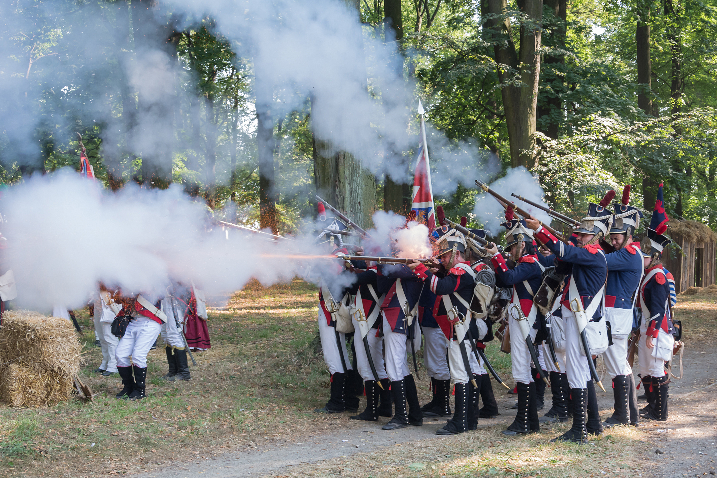 Reenactments of the battle of Kłodzko Fortess from 1807